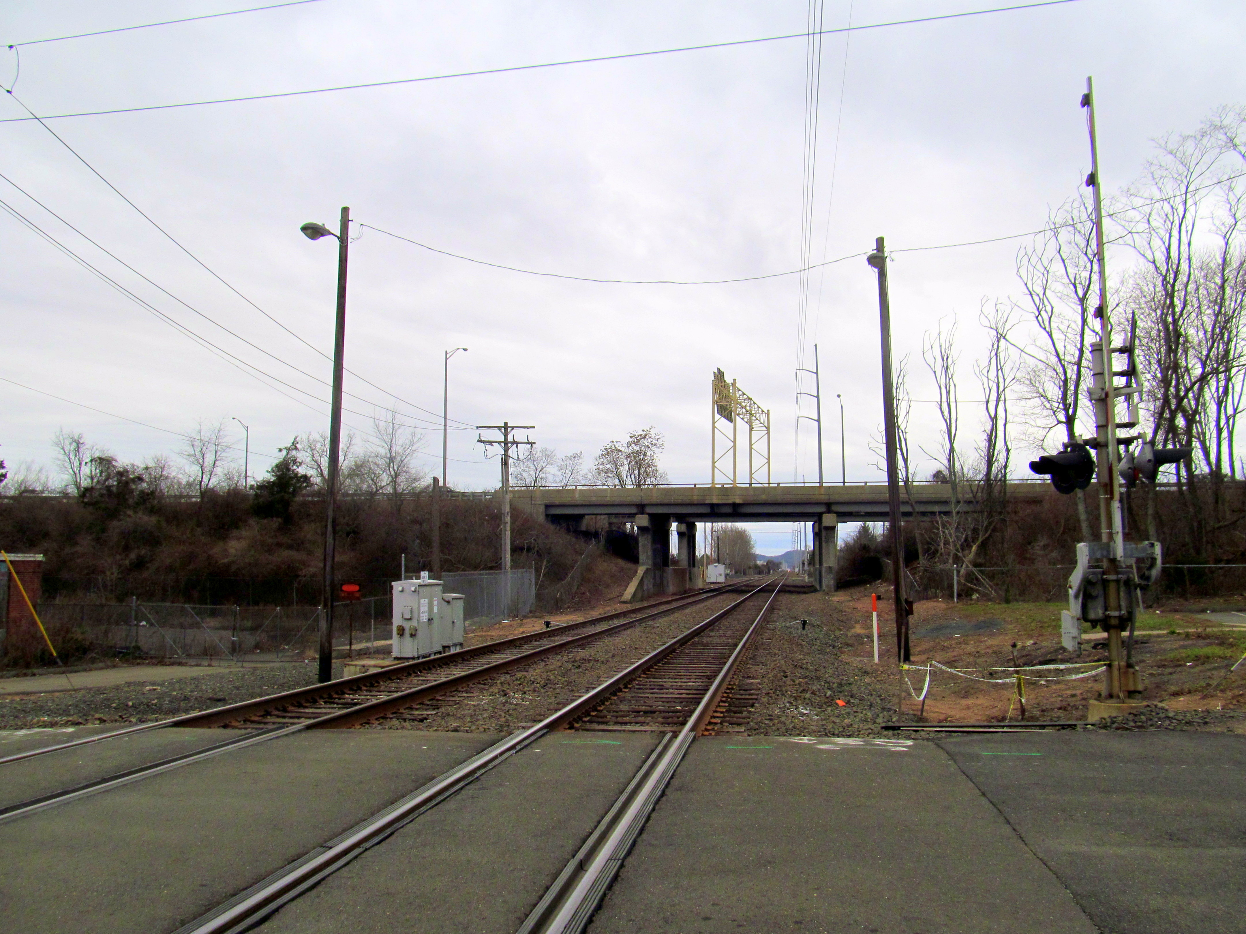 Former (1980-1986) and future North Haven station site in December 2015